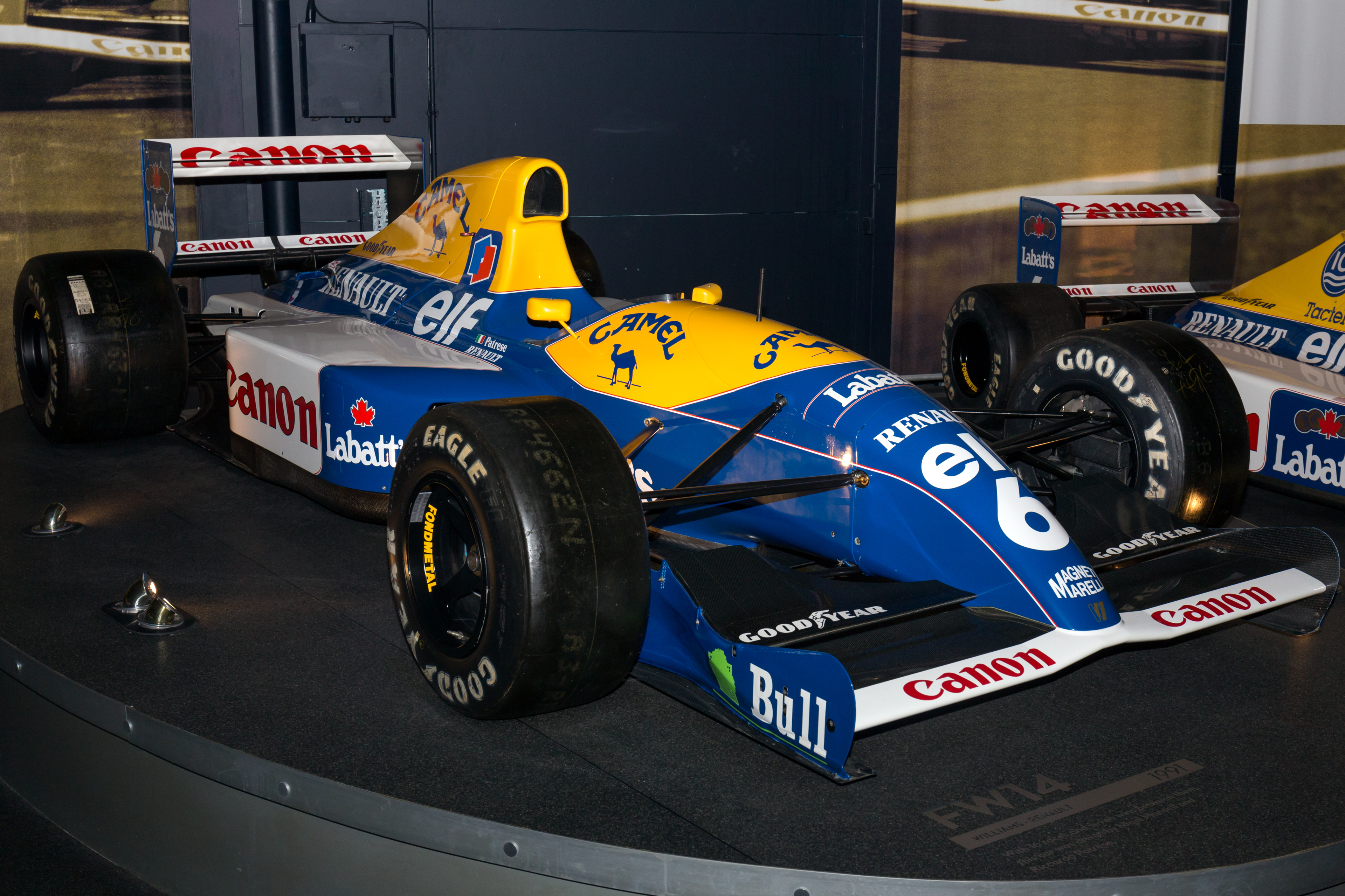 Williams Conference Centre (Grove): Williams FW14 of Riccardo Patrese